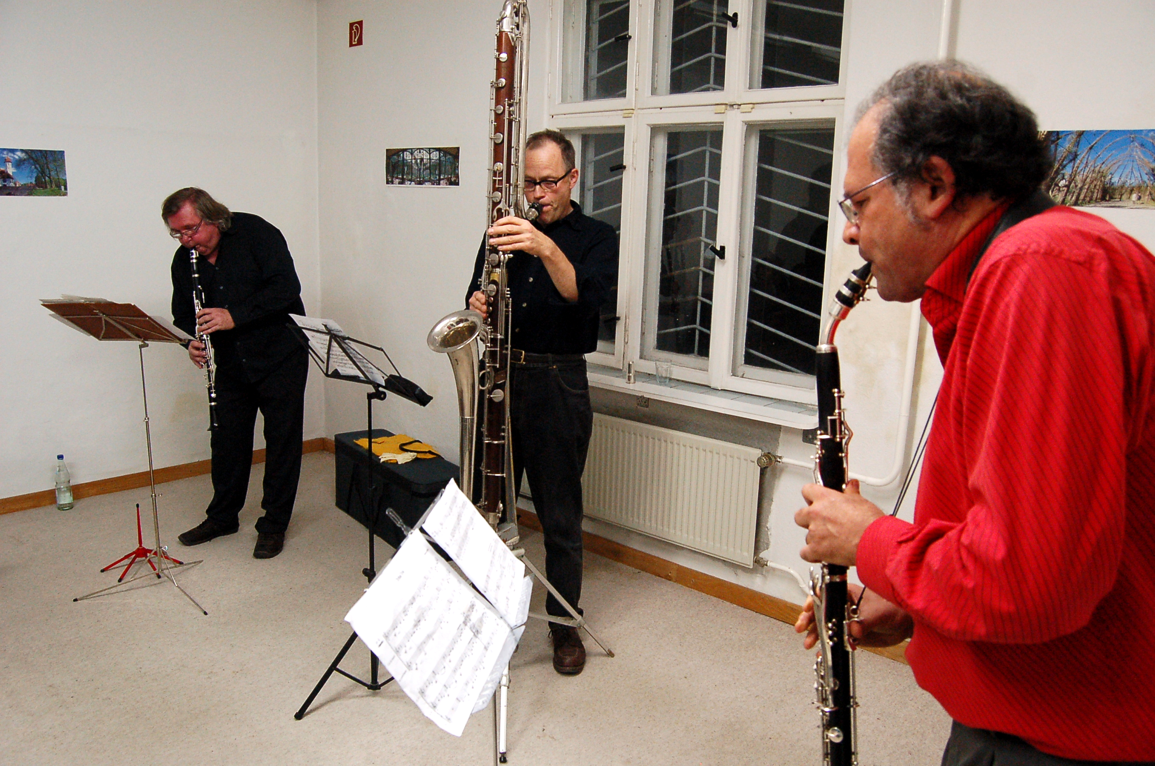 "The Tribal Clarinet Trio" - Theo Jörgensmann, low g clarinet; Ernst Deuker, contrabass clarinet and Etienne Rolin, basset horn - at "Kulturknastfenster" in Brüel, Germany.